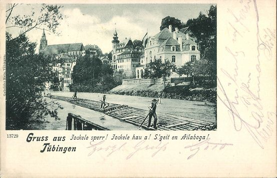 Raft on the Neckar floating through Tübingen